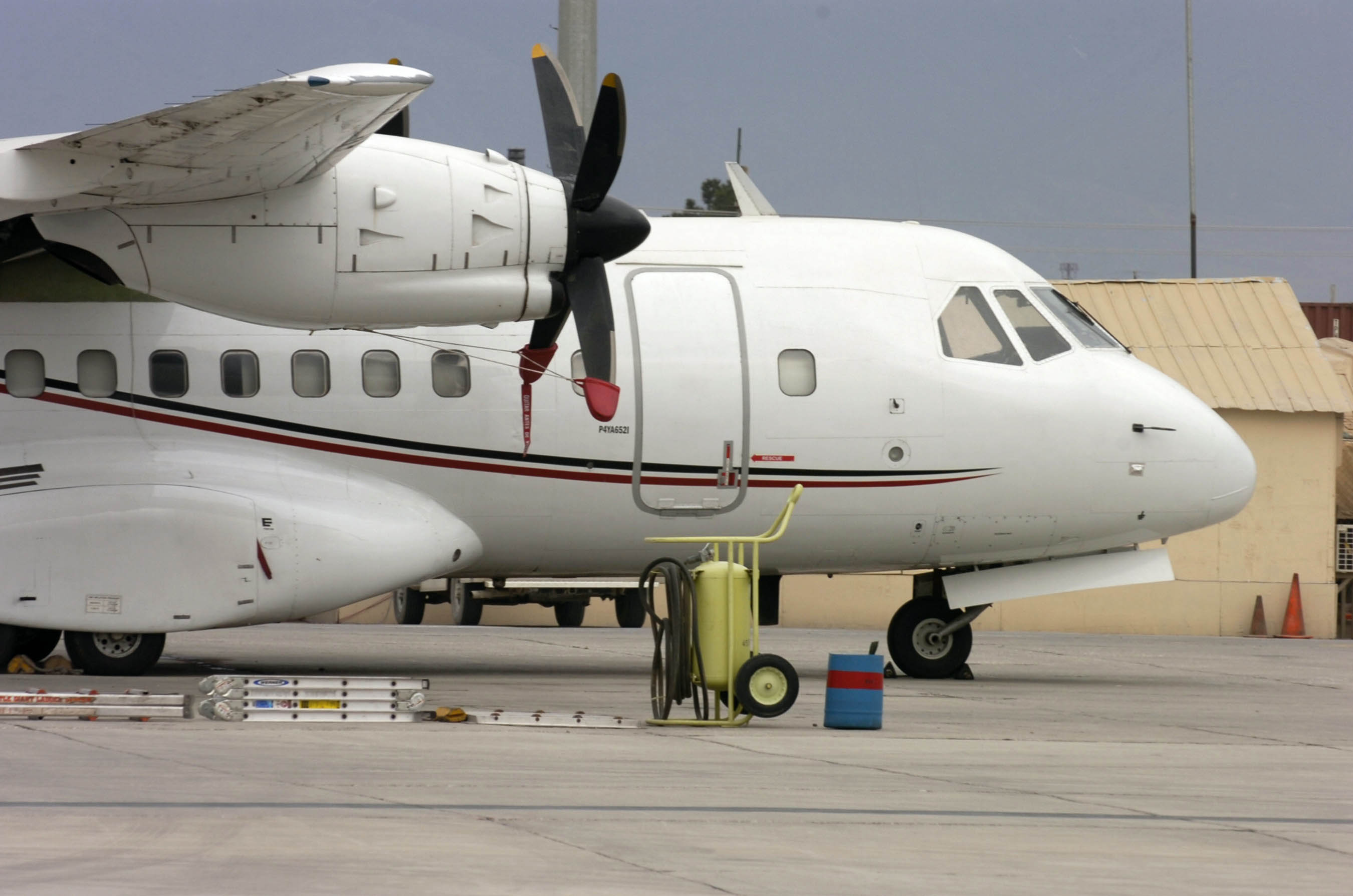 A Presidential Airways Casa CN-235-10 with 53rd Movement Control Battalion (Echelons Above Corps) is parked on the flight line on Dover Air Force Base, Del., March 30, 2009, as it receives maintenance. The aircraft is used to move passengers, palettes and mail. It can carry twice as much as the Casa C-212 Aviocar aircraft and requires three crew members on all missions.